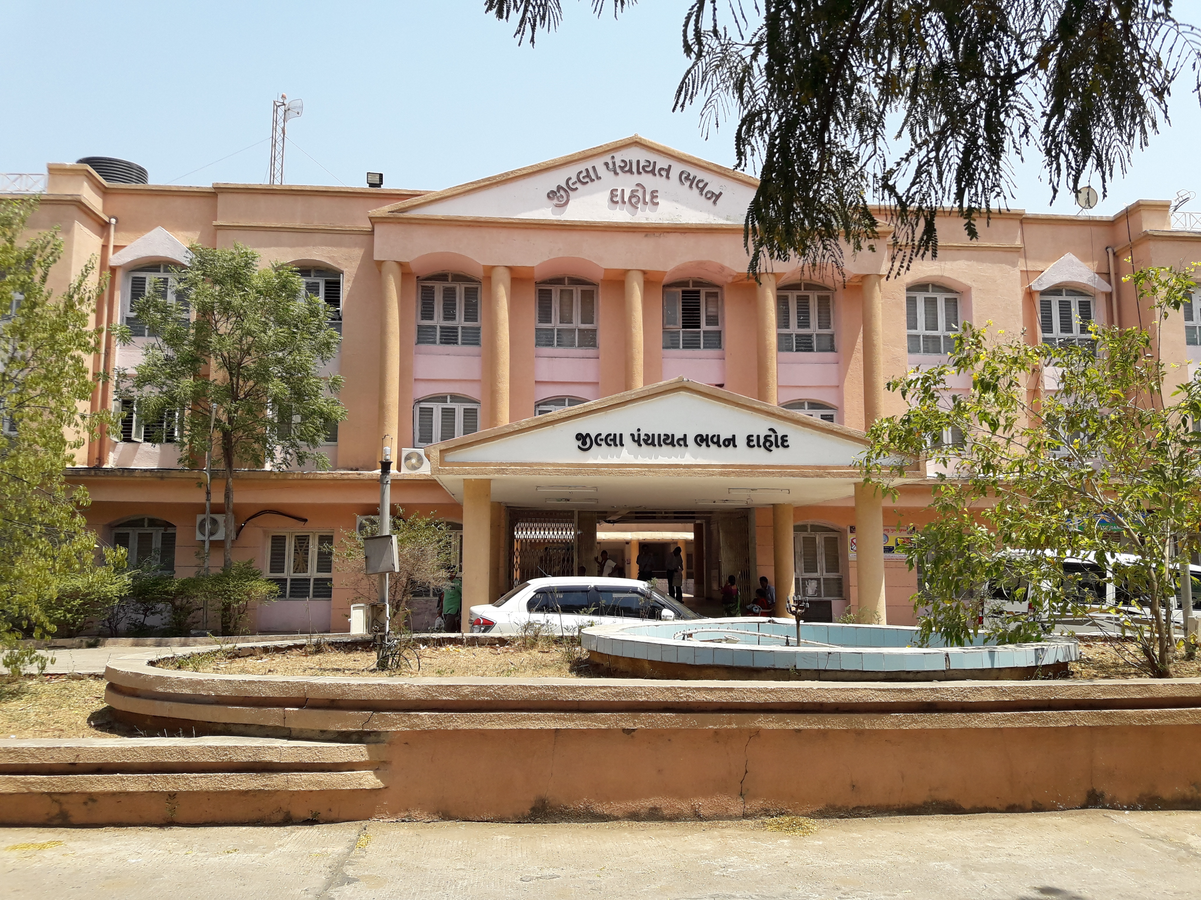 Building of District Panchayat, Dahod districts, Gujarat, India.